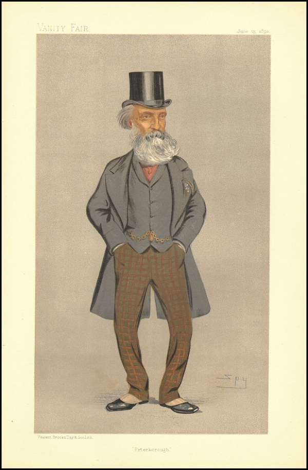 Statesmen No.613: Caricature of Mr Alpheus Cleophas Morton MP. Caption reads: "Peterborough"